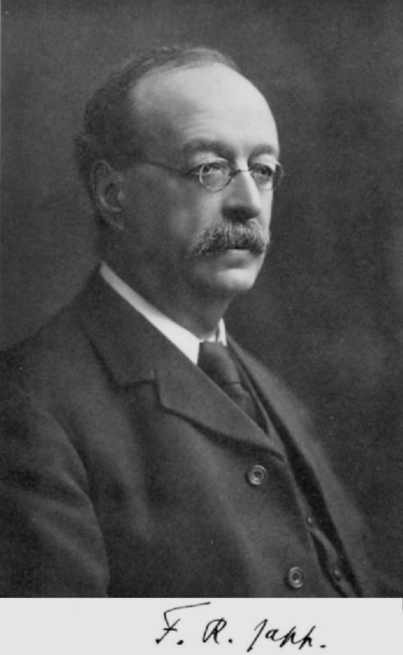 Francis Robert Japp (8 February 1848 – 1 August 1928)